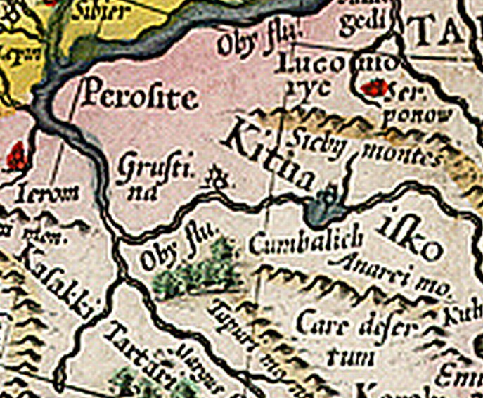 The fragment of the map of Tartaria created by Gerardus Mercator, which is showing the disapeared city Grustina in Siberia.